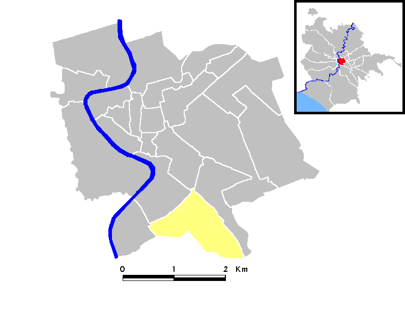 Locator maps of Rome (rioni)